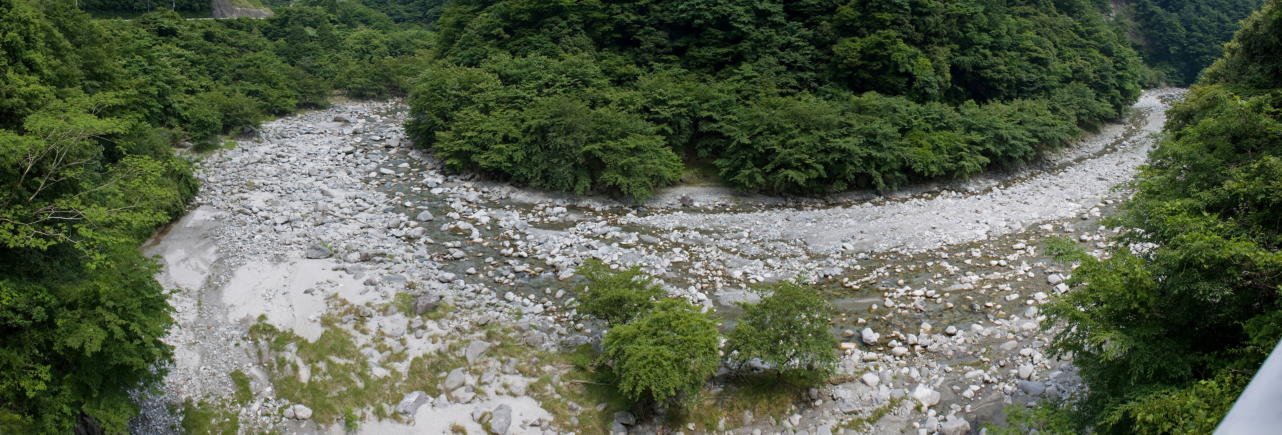 Nakagawa River (中川川 Nakagawa-gawa) at Mts.Tanzawa, Kanagawa, Japan.